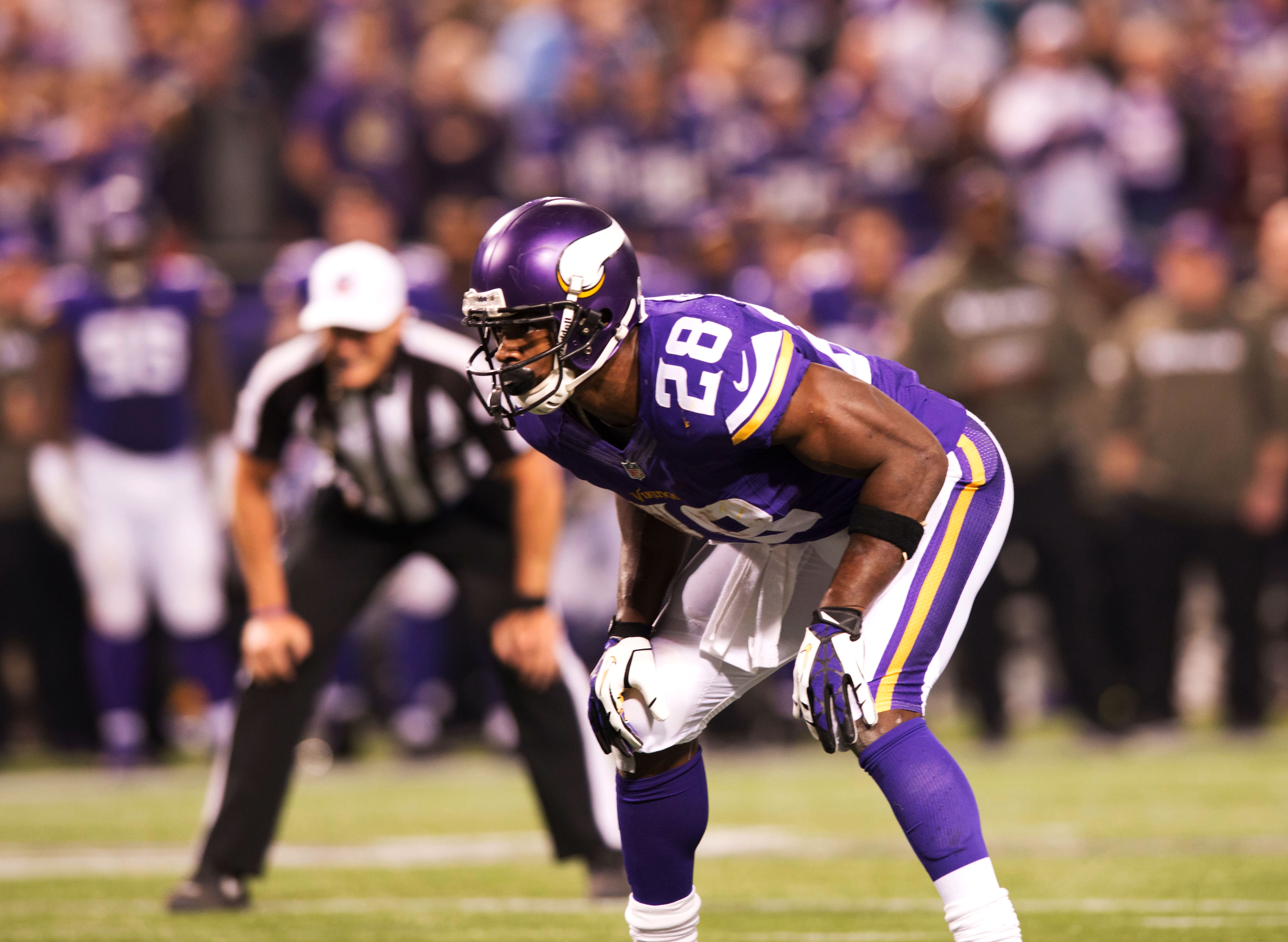 Minnesota Vikings RB Adrian Peterson during the 2013 Vikings Military Appreciation Day